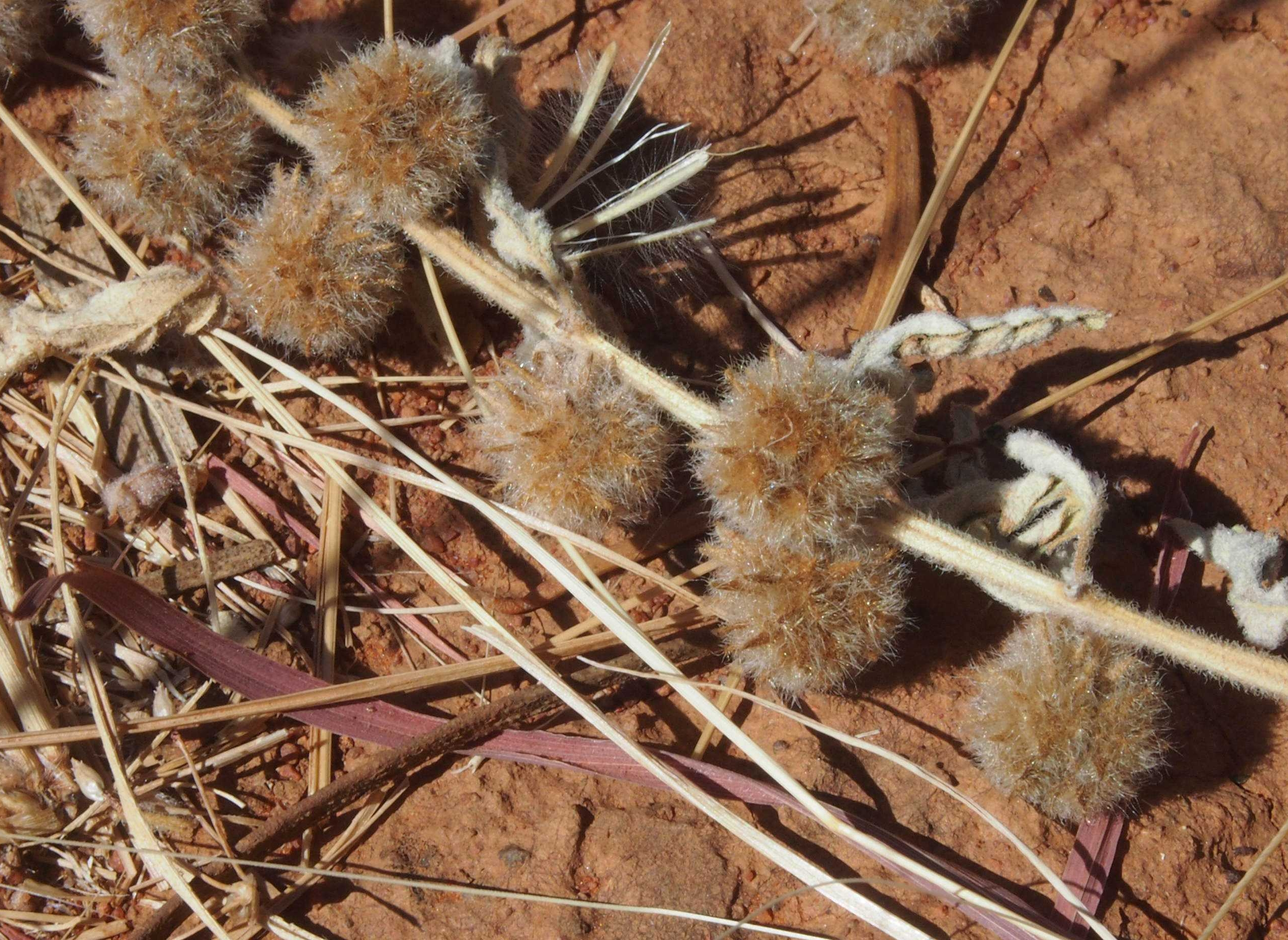 Josephinia eugeniae fruit